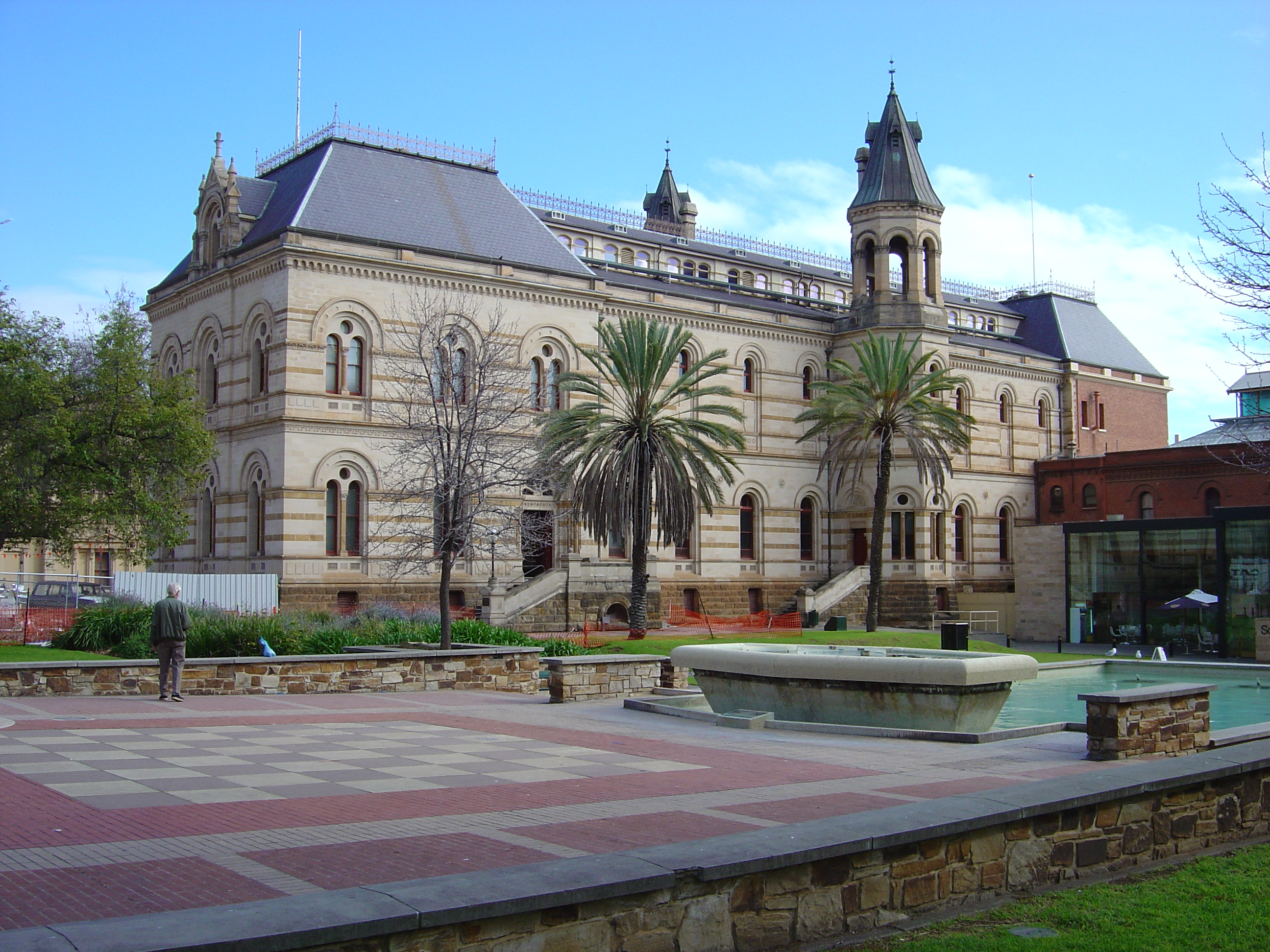 The now removed Lavington Bonython Fountain in front of the SA Museum and the Mortlock Wing of the State Library on North Terrace, Adelaide SA 5000, Australia